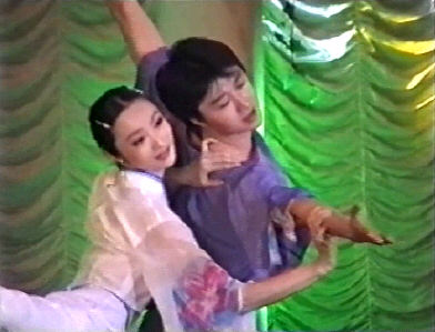 Mrs. Shan Chong and Mr. Wang Lie received an exceptional award for outstanding artistic achievement in contemporary dance. First Delphic Games 2000, Moscow / Russia